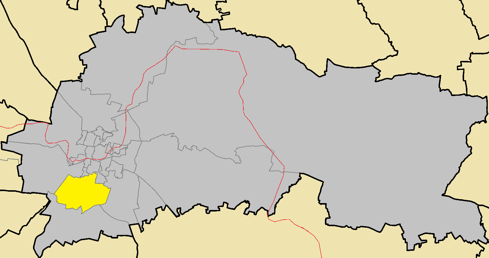 Trypiotis in Nicosia Municipality.